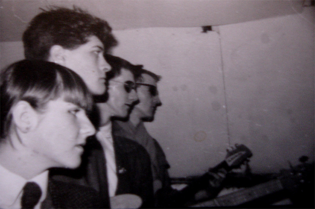 Young Marble Giants Alison, Peter, Phil, Stuart Summary Original photo by Wendy Smith, 1978/9, copy taken from contact sheet on 28 Nov 2006 by Duncan Smith